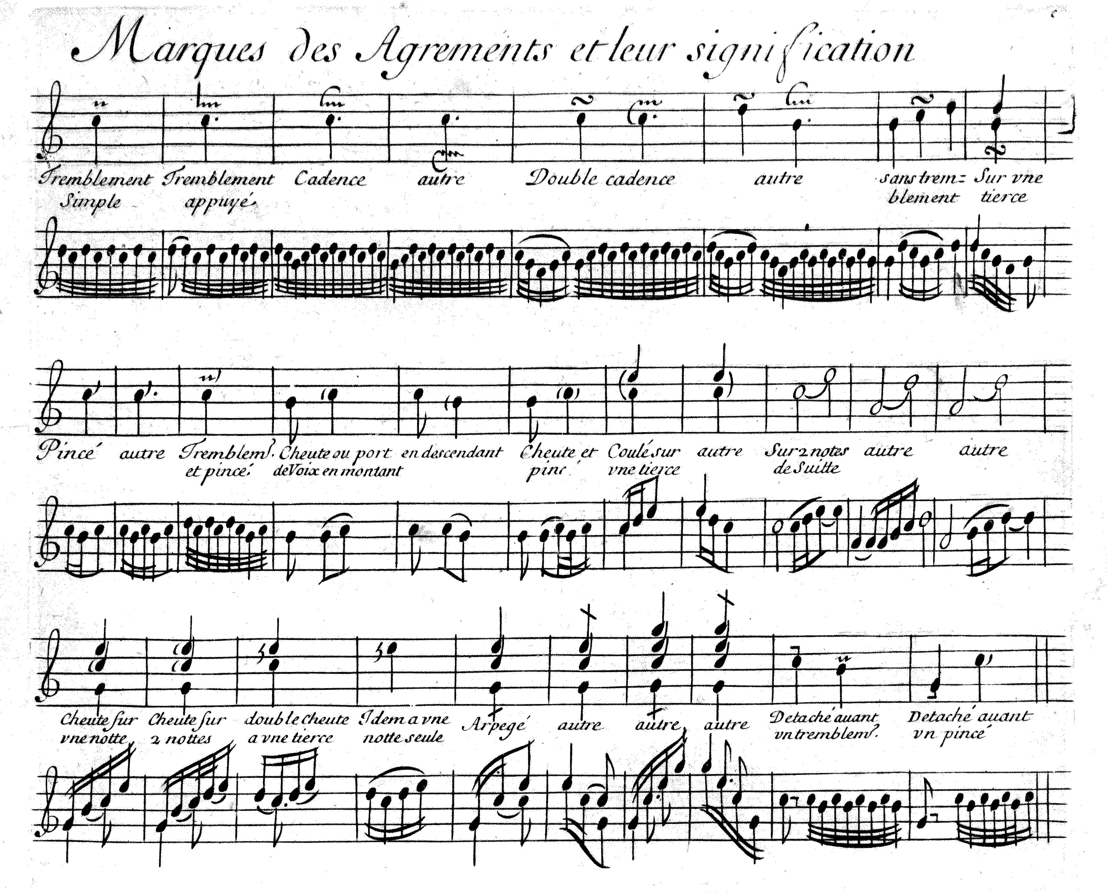 The complete table of ornamnets from Jean-Henri d'Anglebert's Pièces de clavecin (1689).